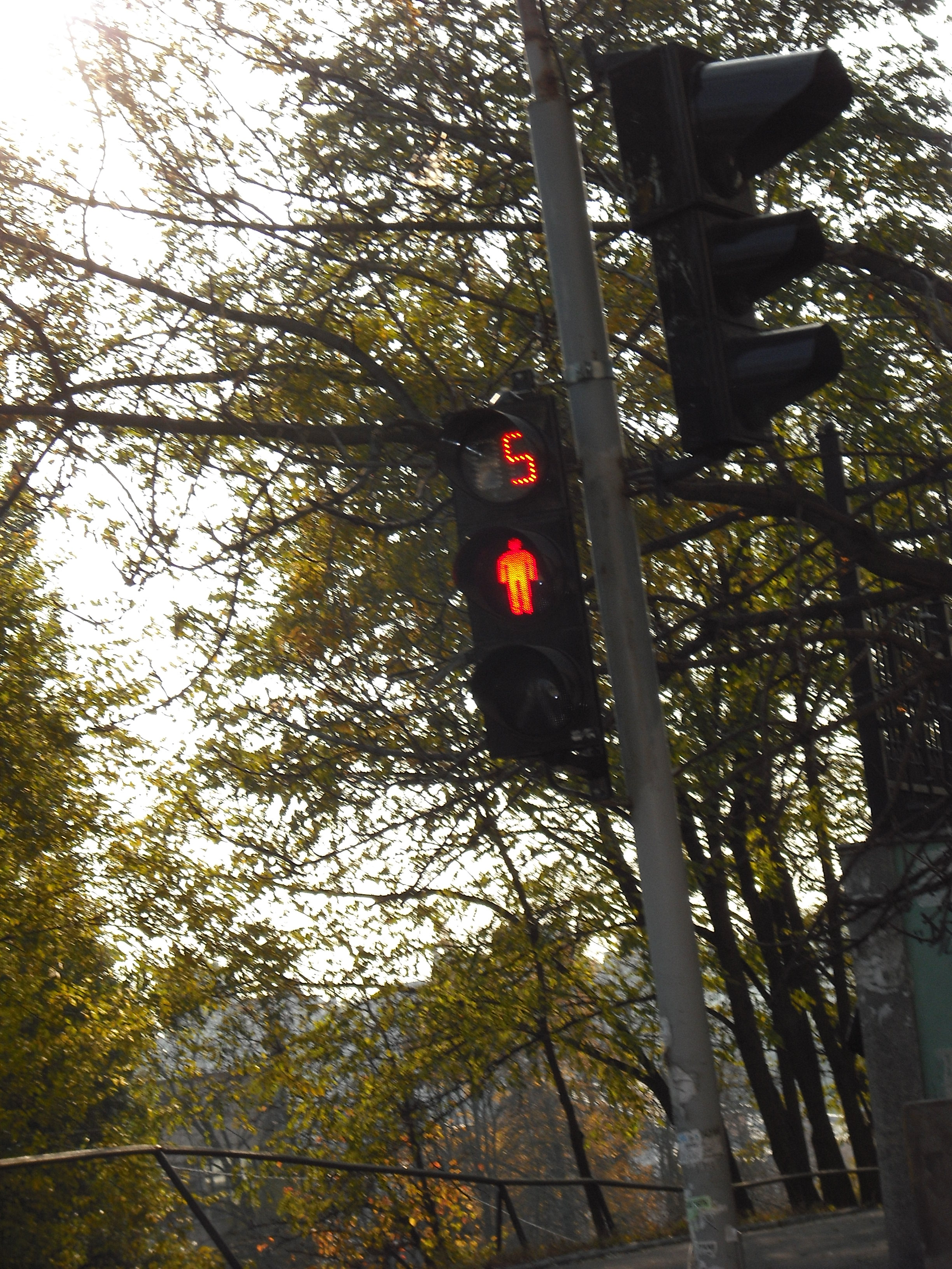 Kiev - traffic light with counter (seconds till green light)